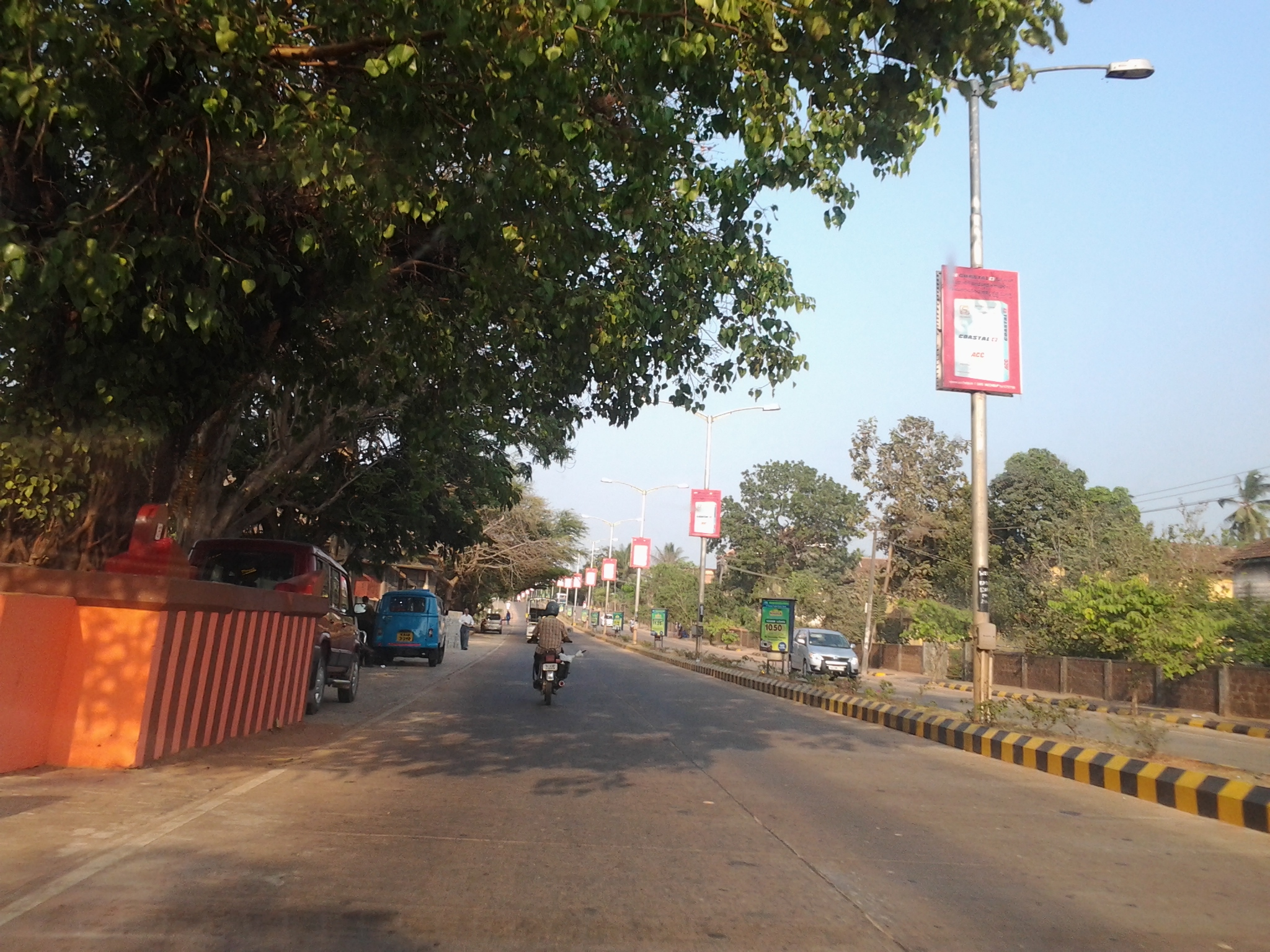 Airport Road Mangalore